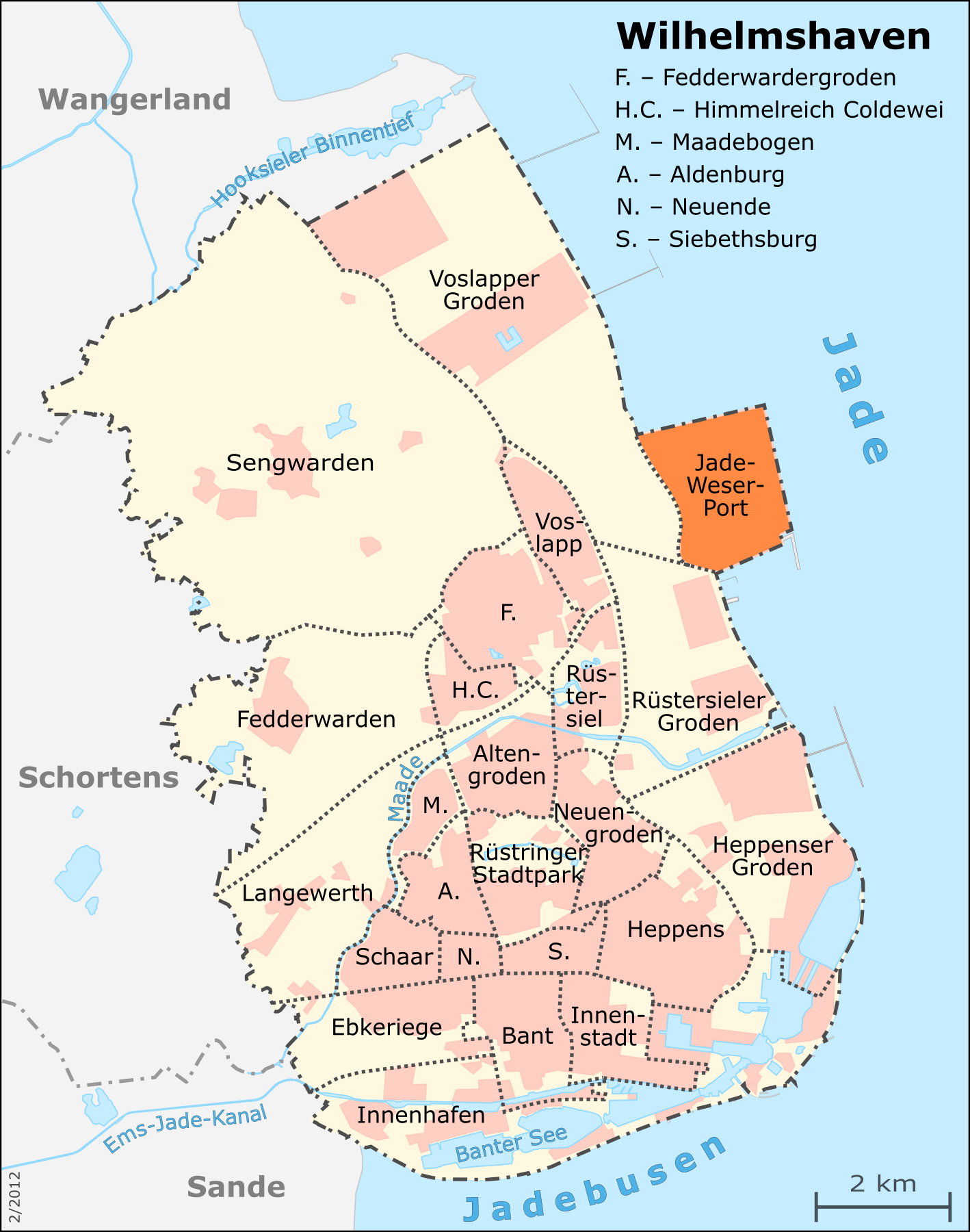 Map of Wilhelmshaven's city districts: JadeWeserPort